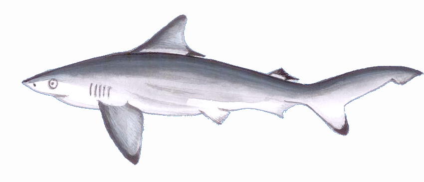 Pondicherry Shark, Carcharhinus hemiodon